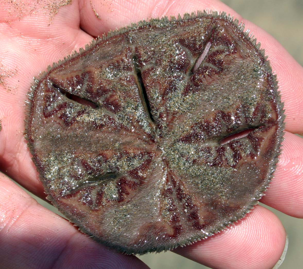 Bottom of live Sanddollar at Beach of Playa Grande, Costa Rica 23. February 2005